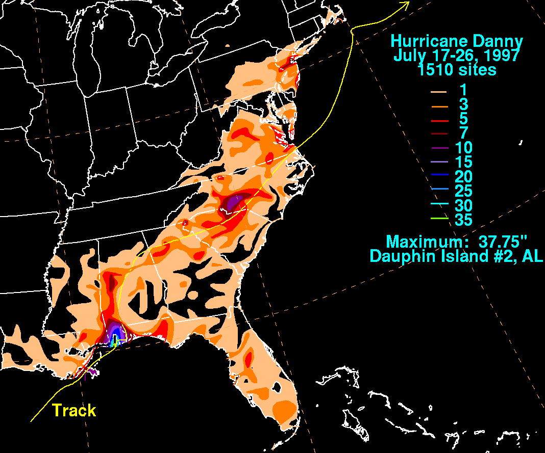 Rainfall produced by Hurricane Danny during July 1997.